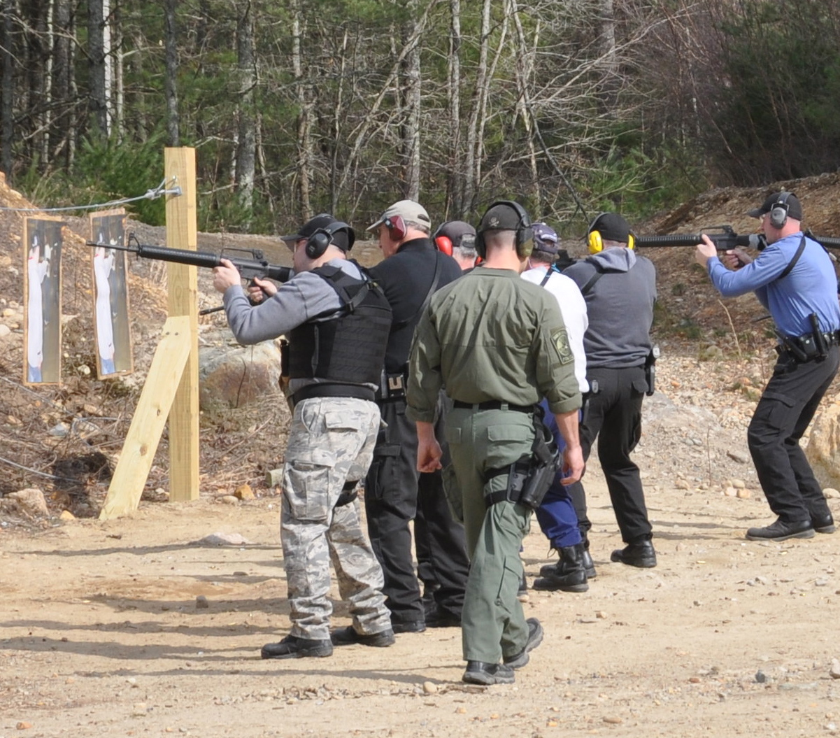 Police SWAT team members and instructors practice using single, burst and automatic fire.